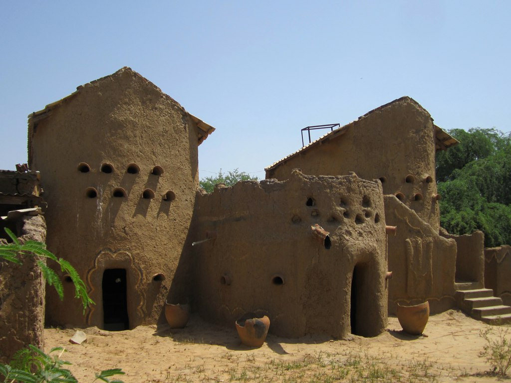 The former sultan's palace in the village of Gaoui just east of N'Djamena, Chad, Central Africa, currently houses a small museum of Sao culture.